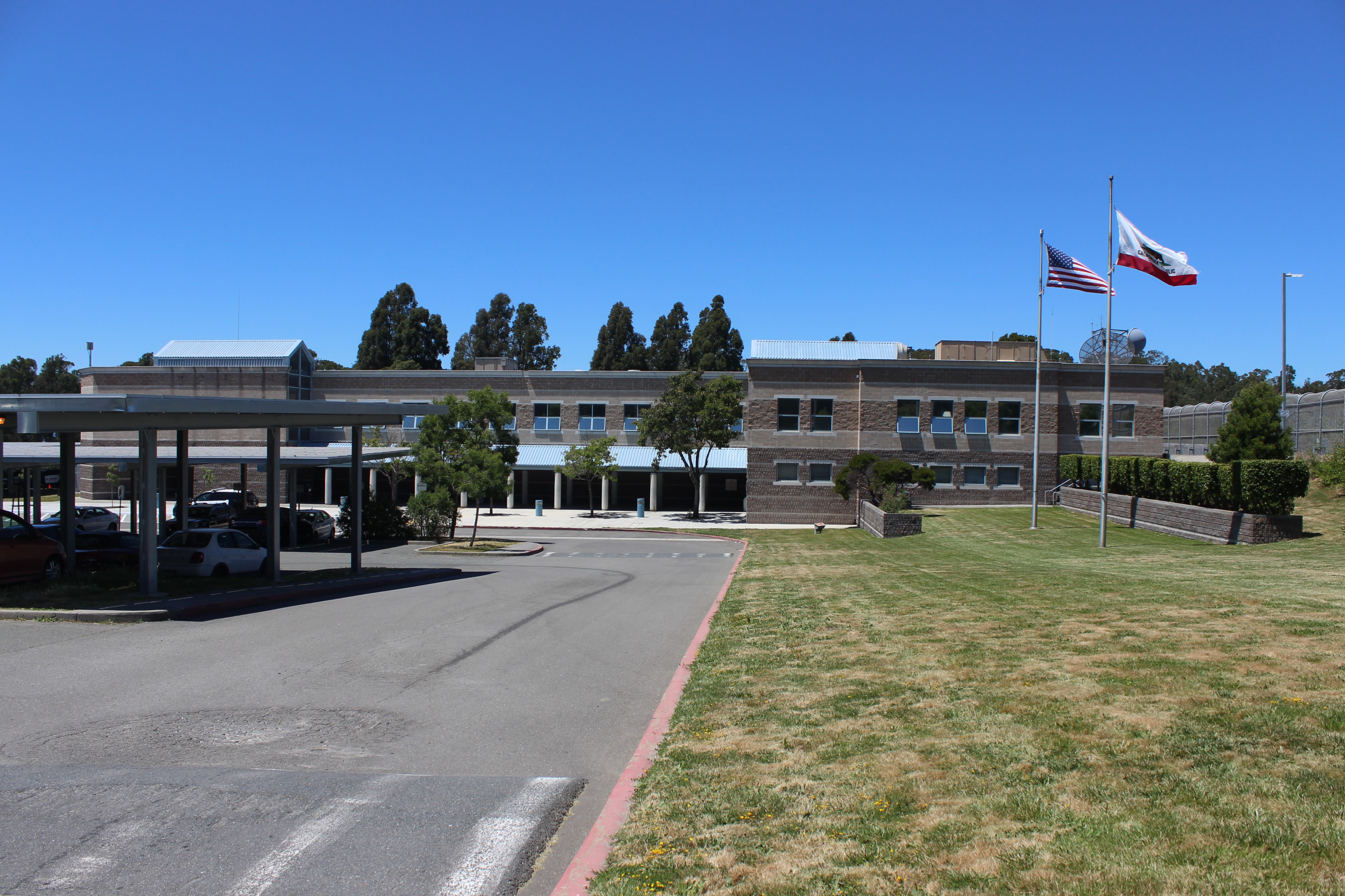 The West County Detention Center in Richmond California